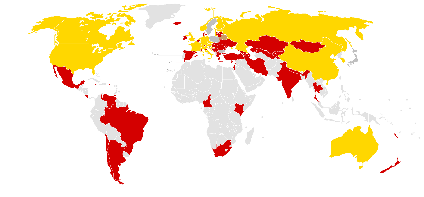 Countries with at least one gold medal Countries with at least one silver medal Countries with at least one bronze medal Countries that didn't get any medal Countries that did not participate